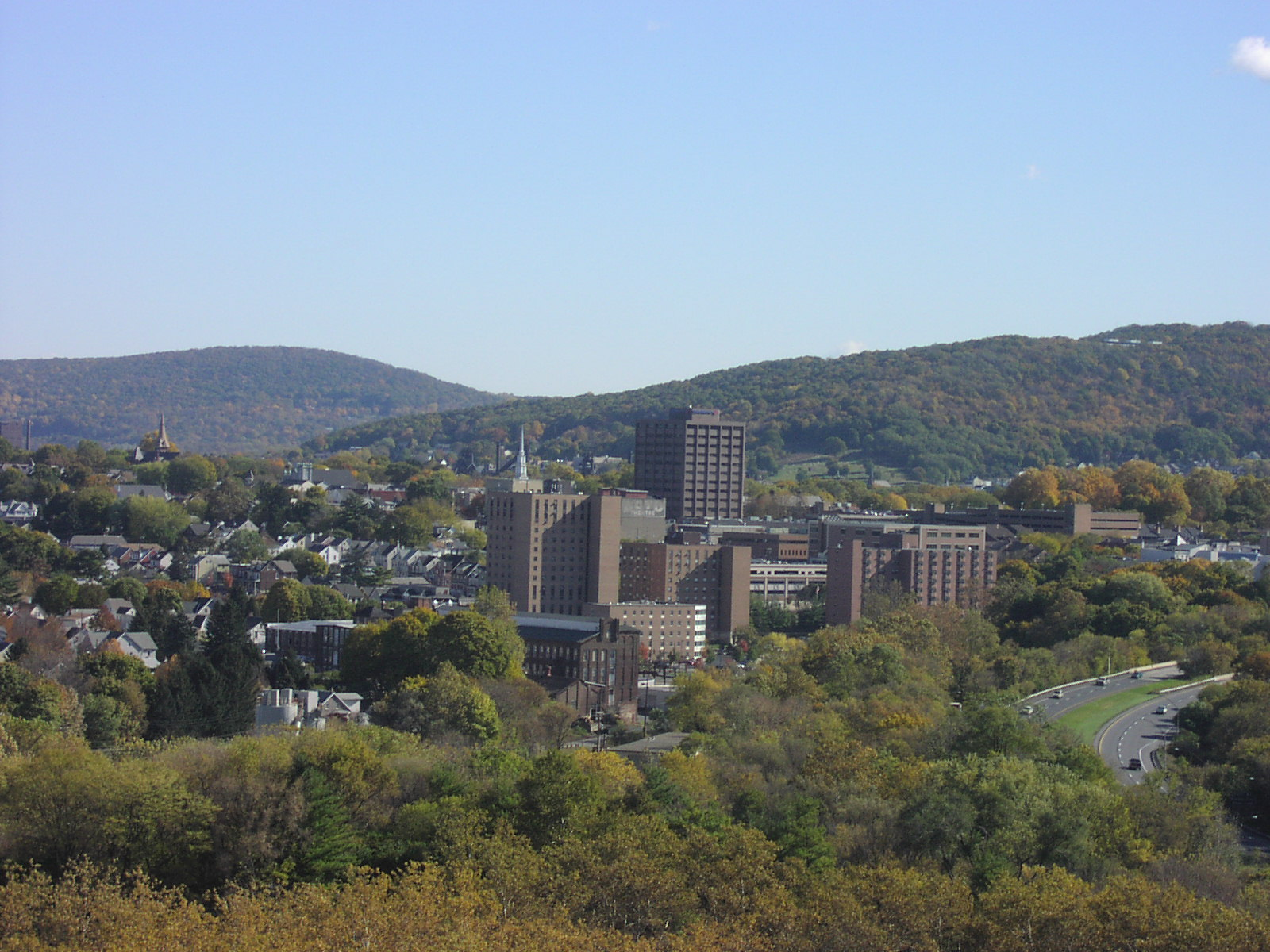 View from Martin Tower